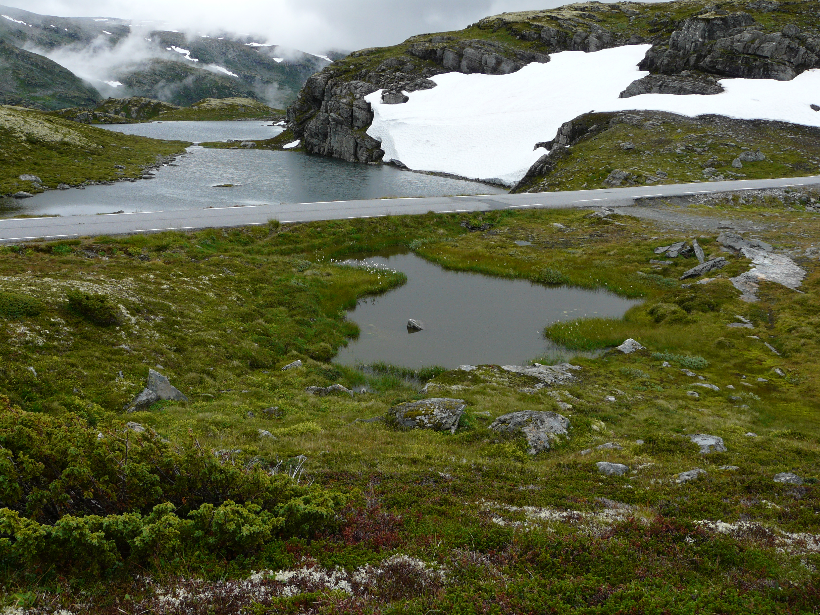 RV 243, between Laerdal and Aurland